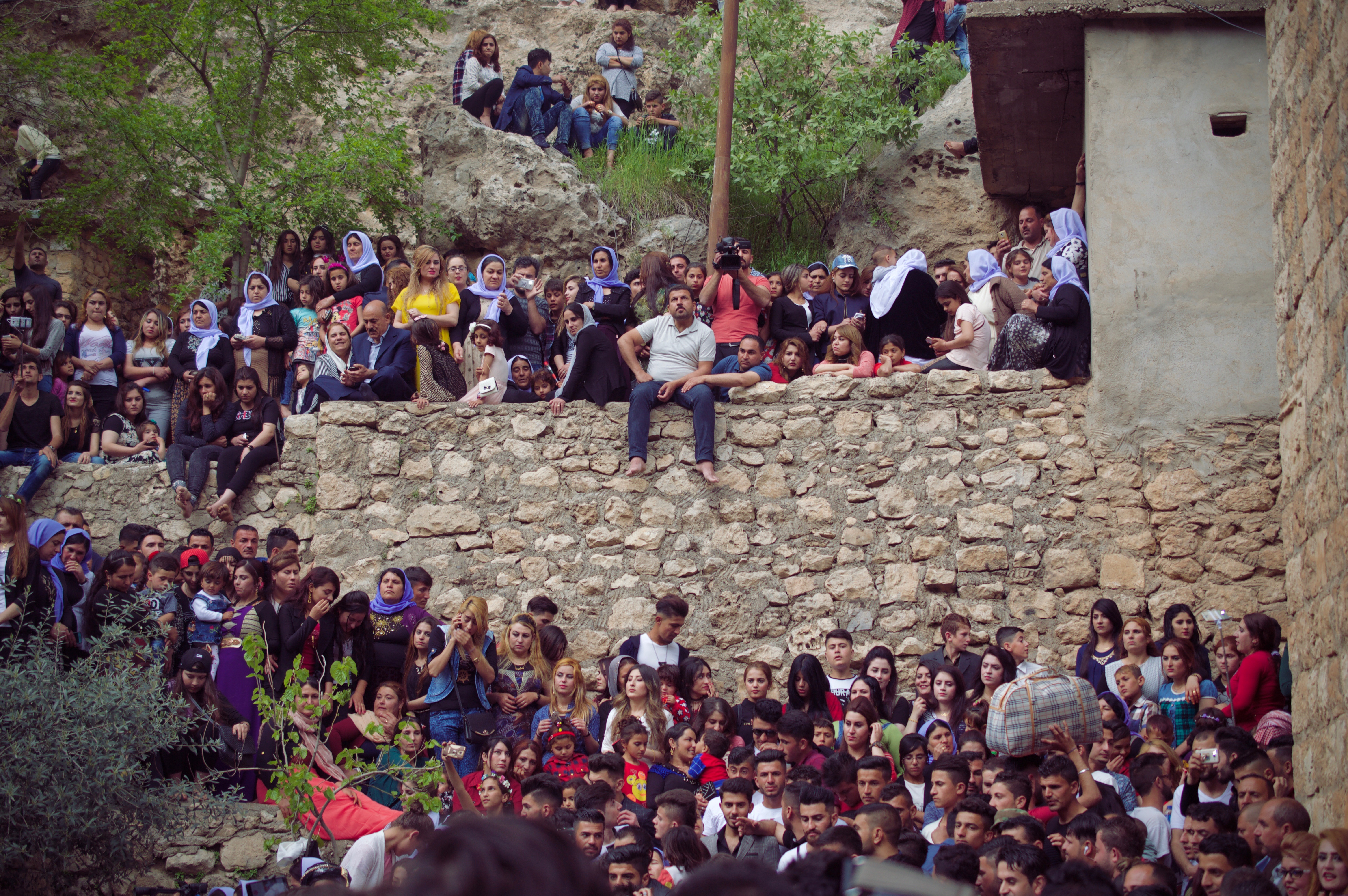 Celebrating the Yezidi (Ezidi) New Year on 18 April 2017, the evening before the start of the new year.